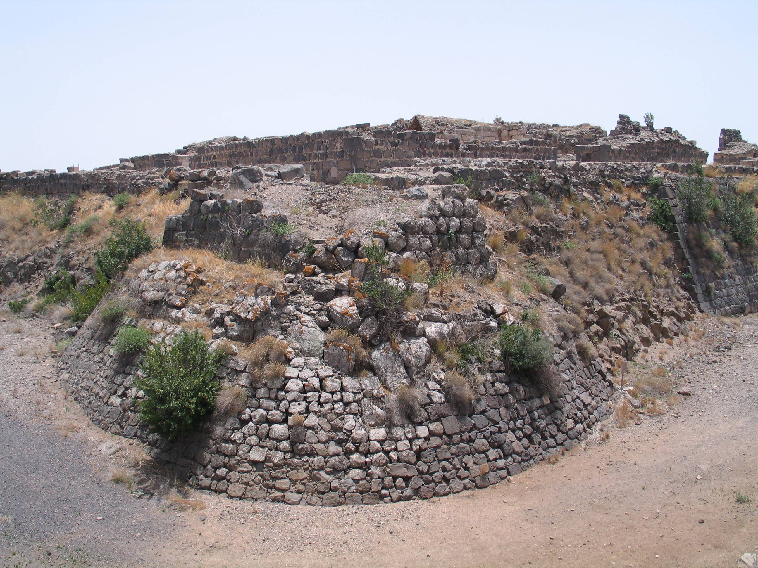 Belvoir fortress, Israel. The northwestern tower.